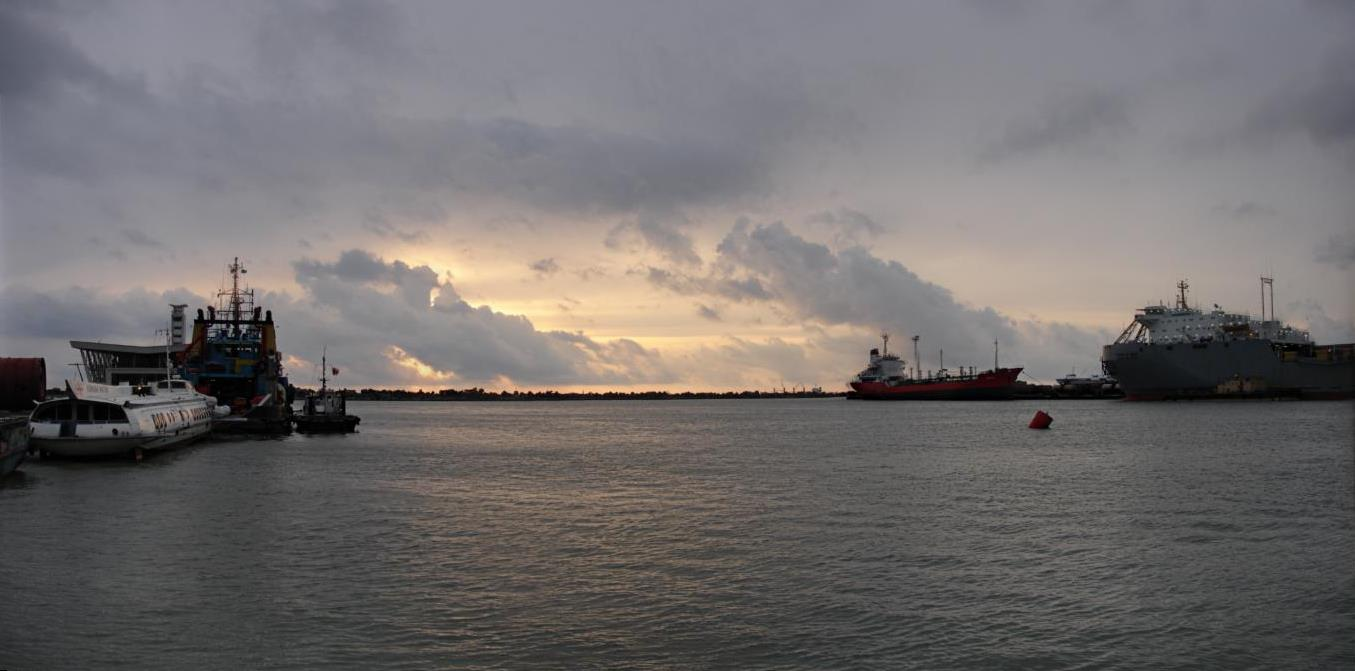 Took that in Poti 4-23-07